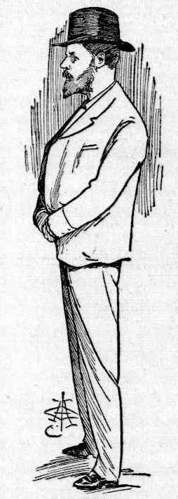 Henry James Holden, Mayor of Kensington and Norwood, South Australia